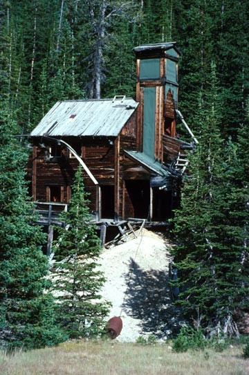 Mine shaft in the historic town and mining district of Kirwin, Shoshone National Forest, Wyoming.